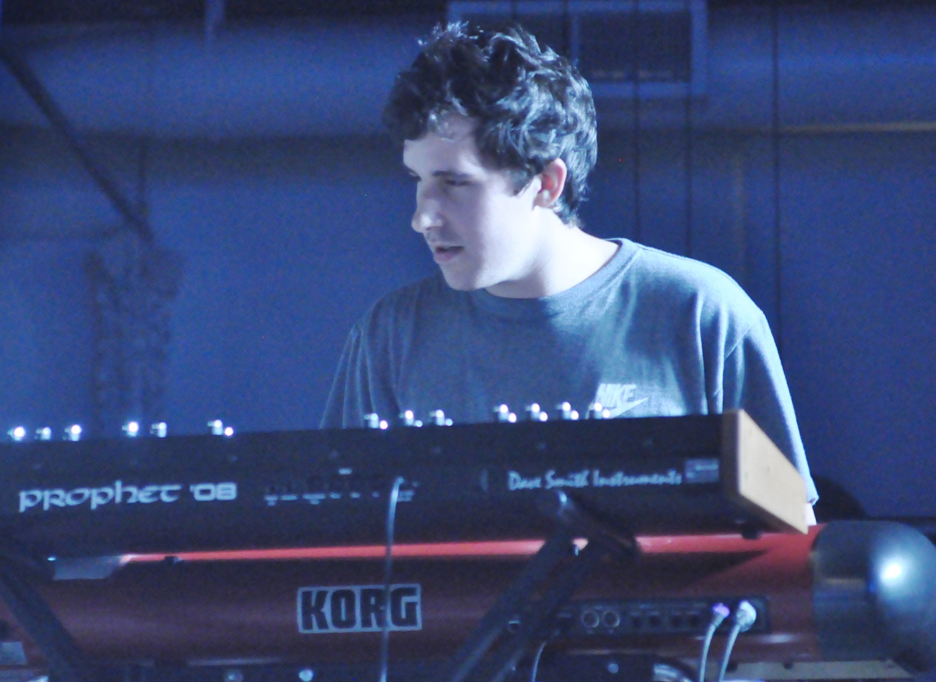 BadBadNotGood performing live in 2012